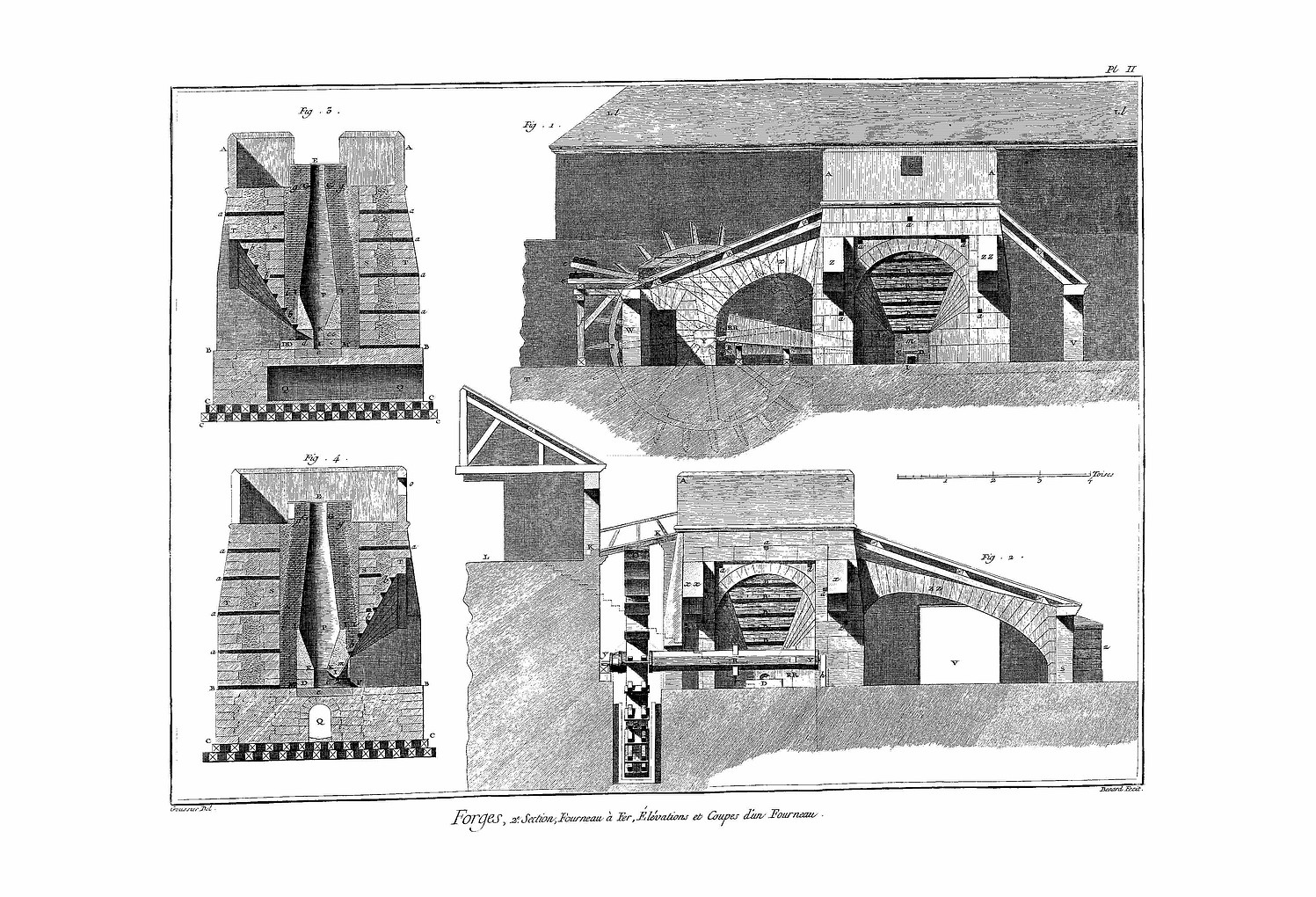 Planches de l'Encyclopédie de Diderot et d'Alembert, volume 3: Forges. 2nd section, Pl. II.